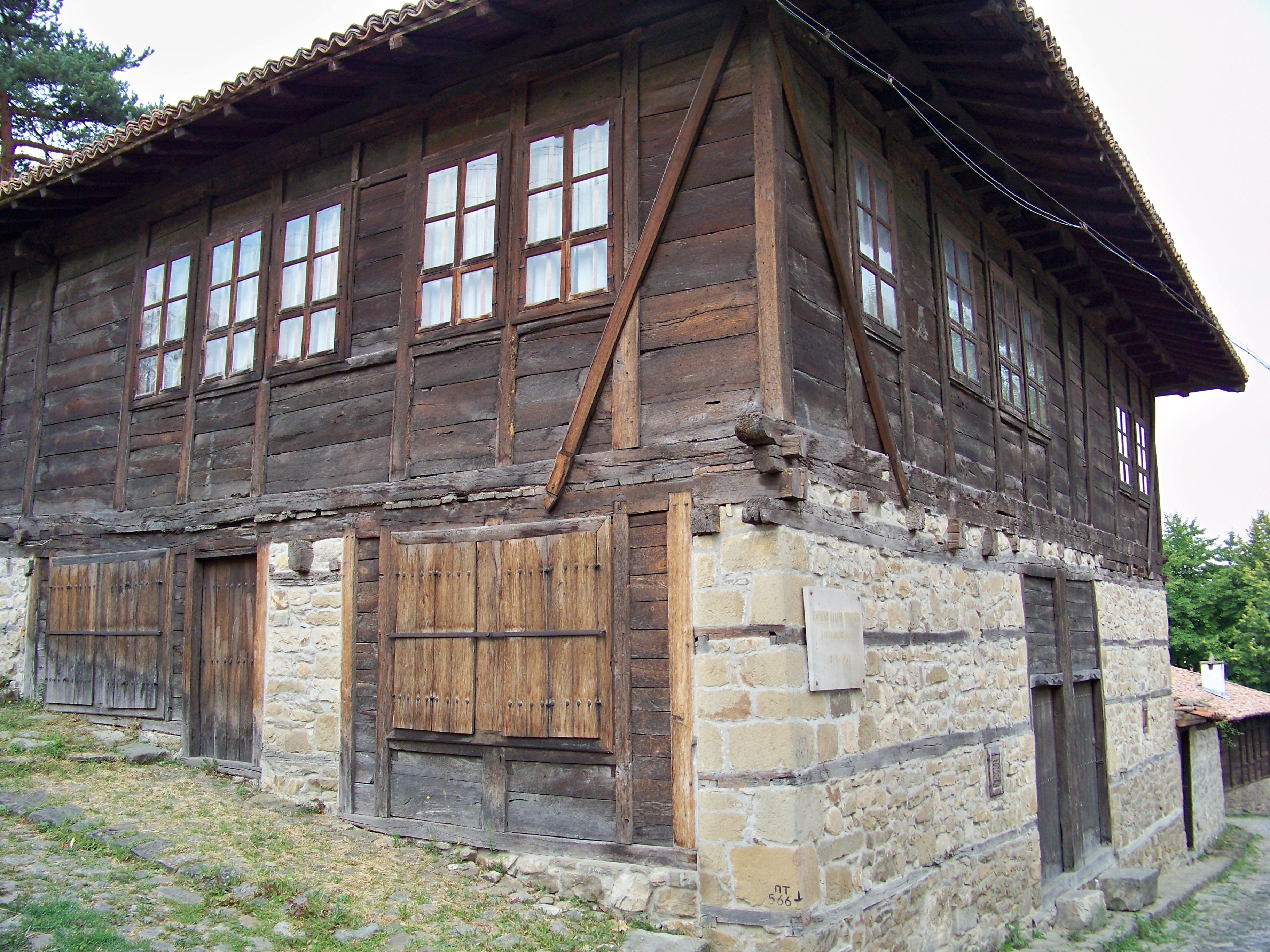 Elena is a Bulgarian town in the central Stara Planina mountains